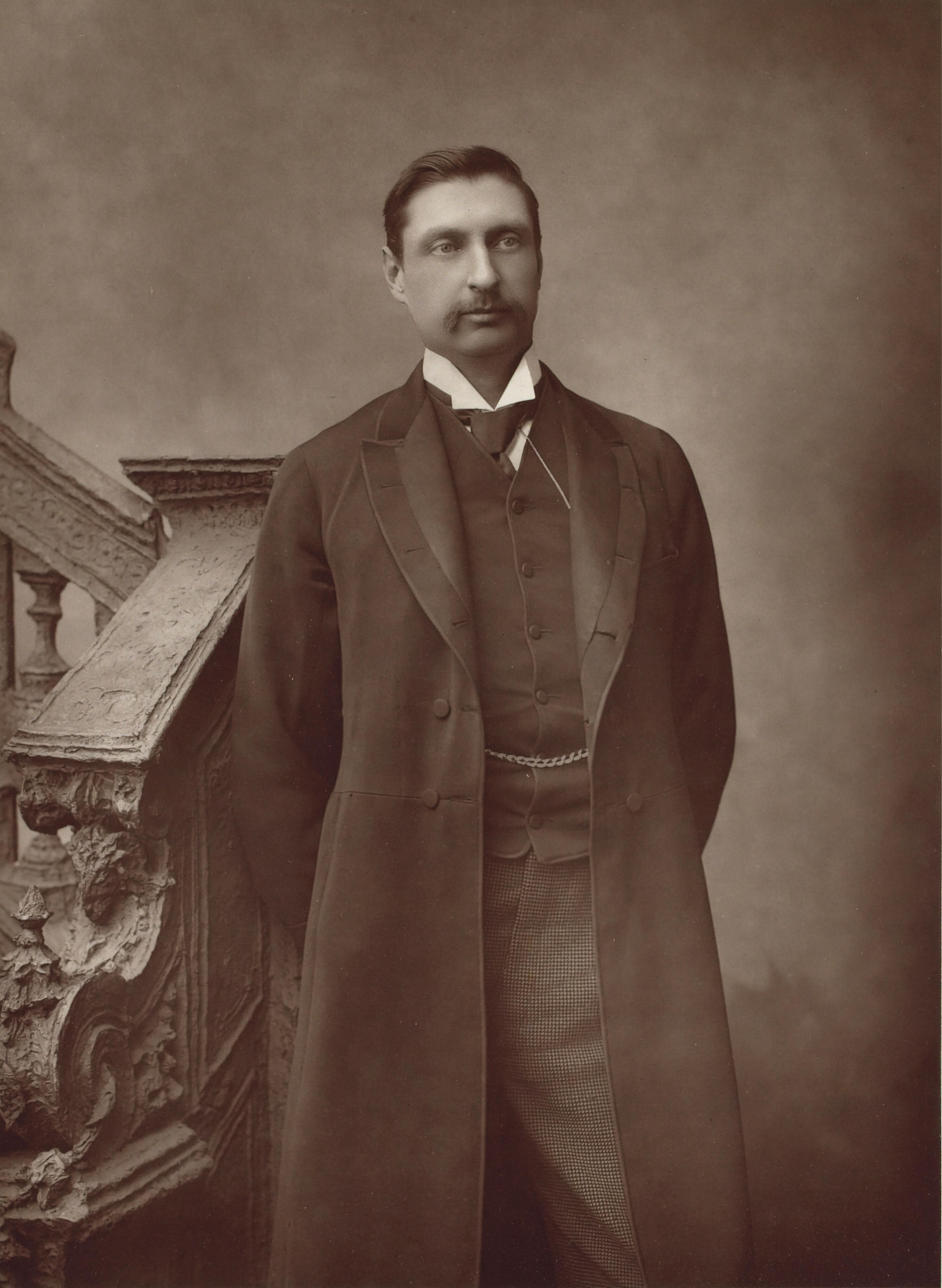 Portrait of Henry Rider Haggard (1856-1925), author, Woodburytype, 9.7 x 7.1 in (247 mm x 180 mm)